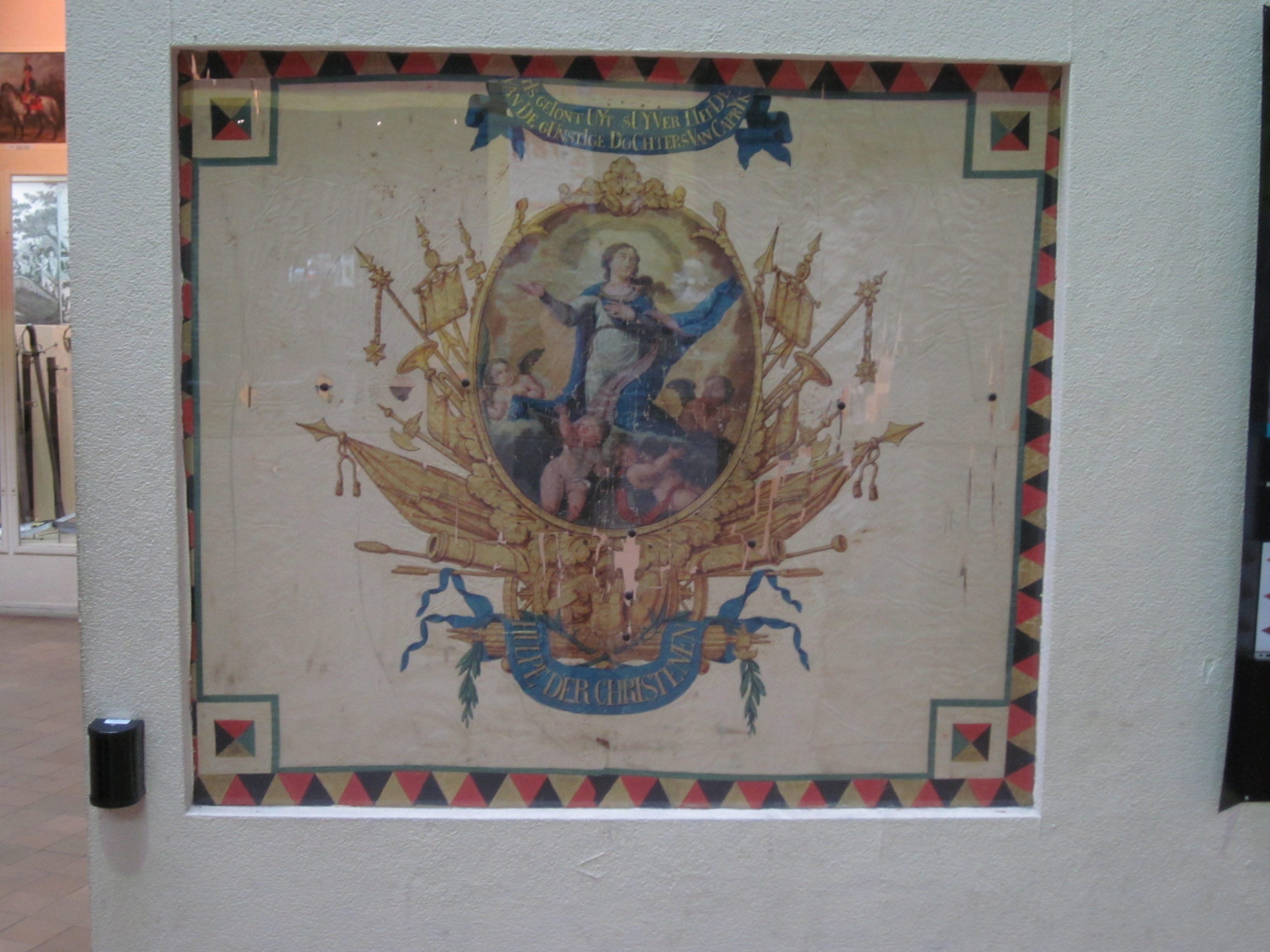 Revolutionary flag of the Brabant Revolution of 1789